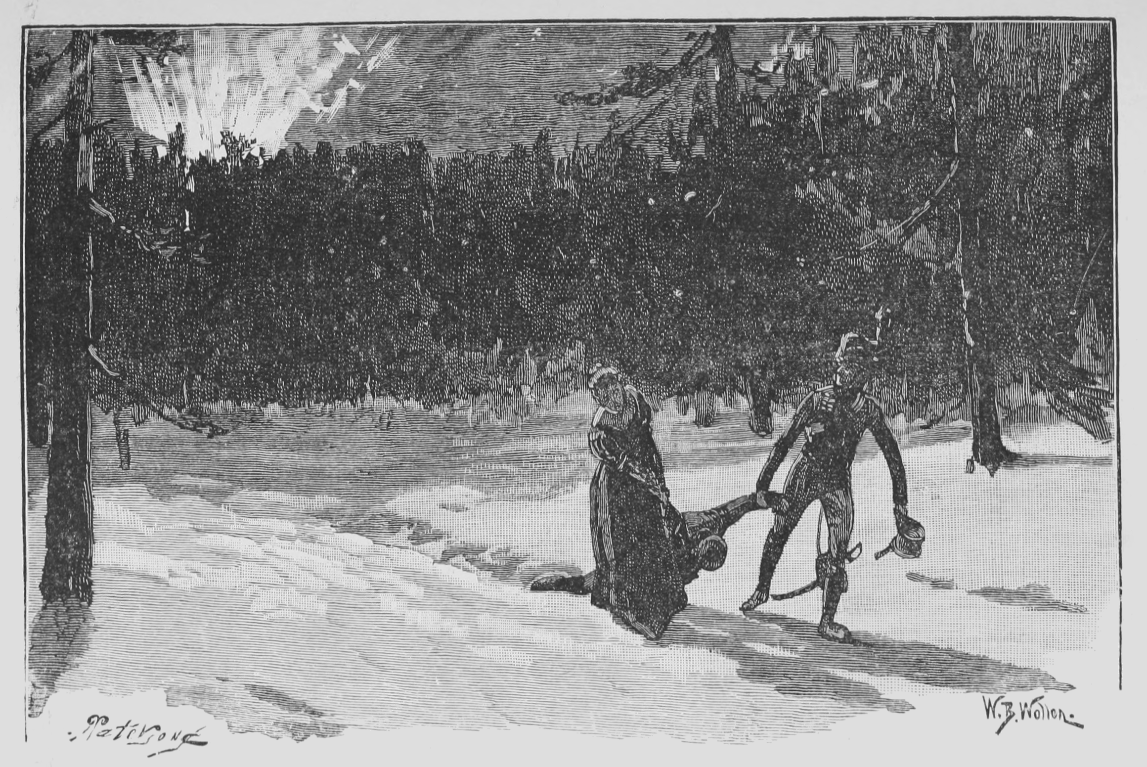 Plate of The Exploits of Brigadier Gerard